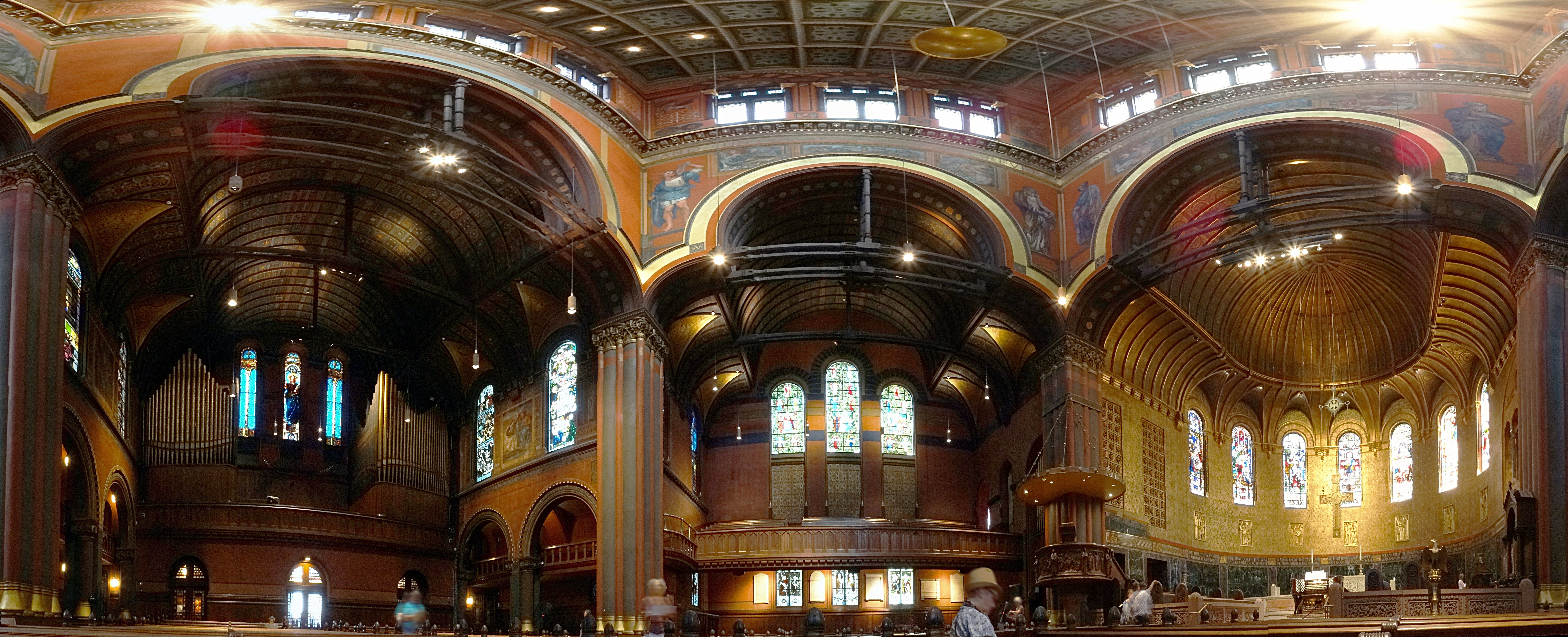 Interior panorama Trinity Church (Boston)